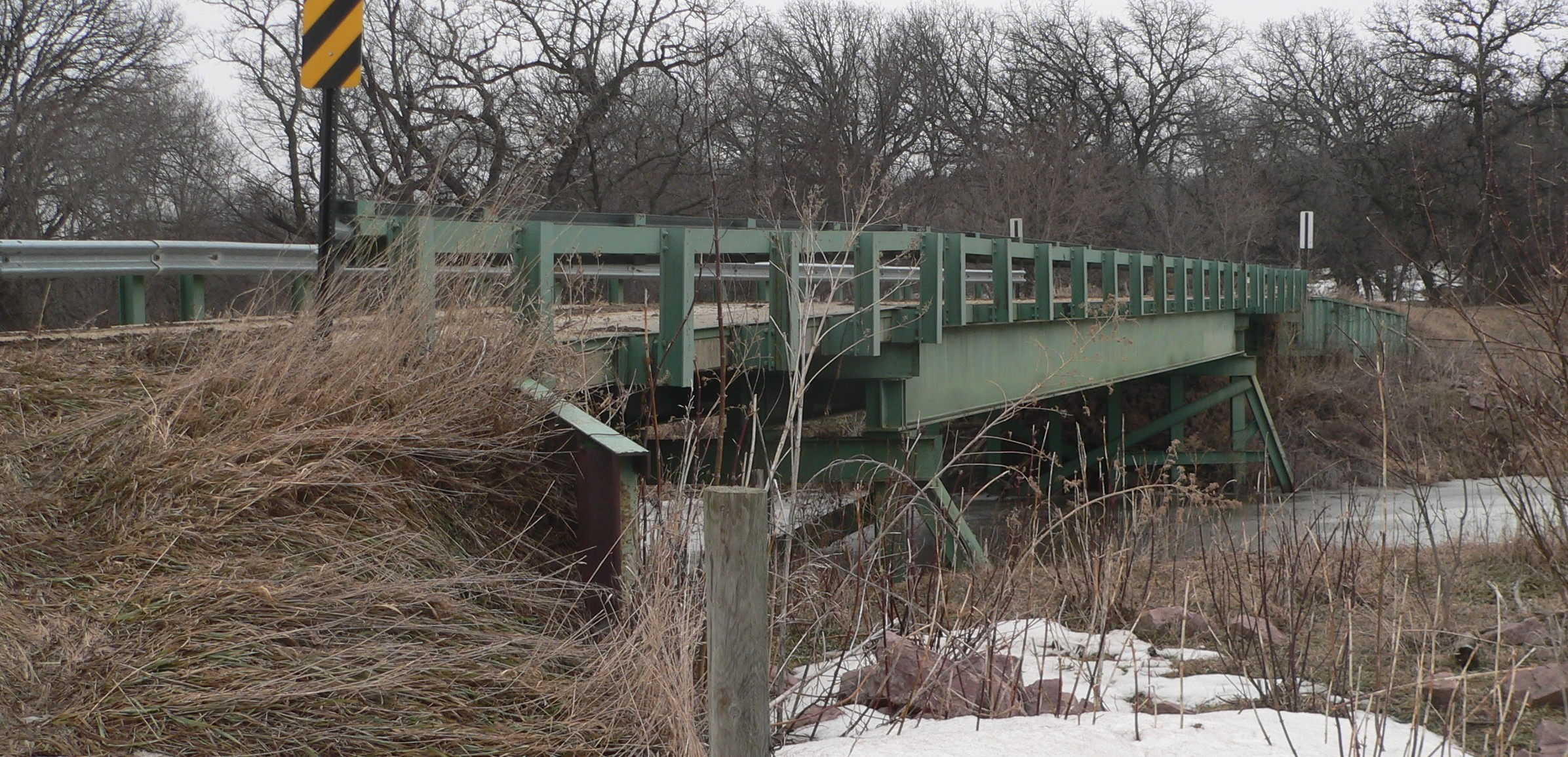 Bridge carrying county road 505 Ave. across Ponca Creek, about 3 miles east of Lynch in rural Boyd County, Nebraska. View is from the northwest (upstream); the bridge runs northwest-southeast. According to , the bridge was built in 1994. It apparently replaced a pony truss bridge that was listed in the National Register of Historic Places.